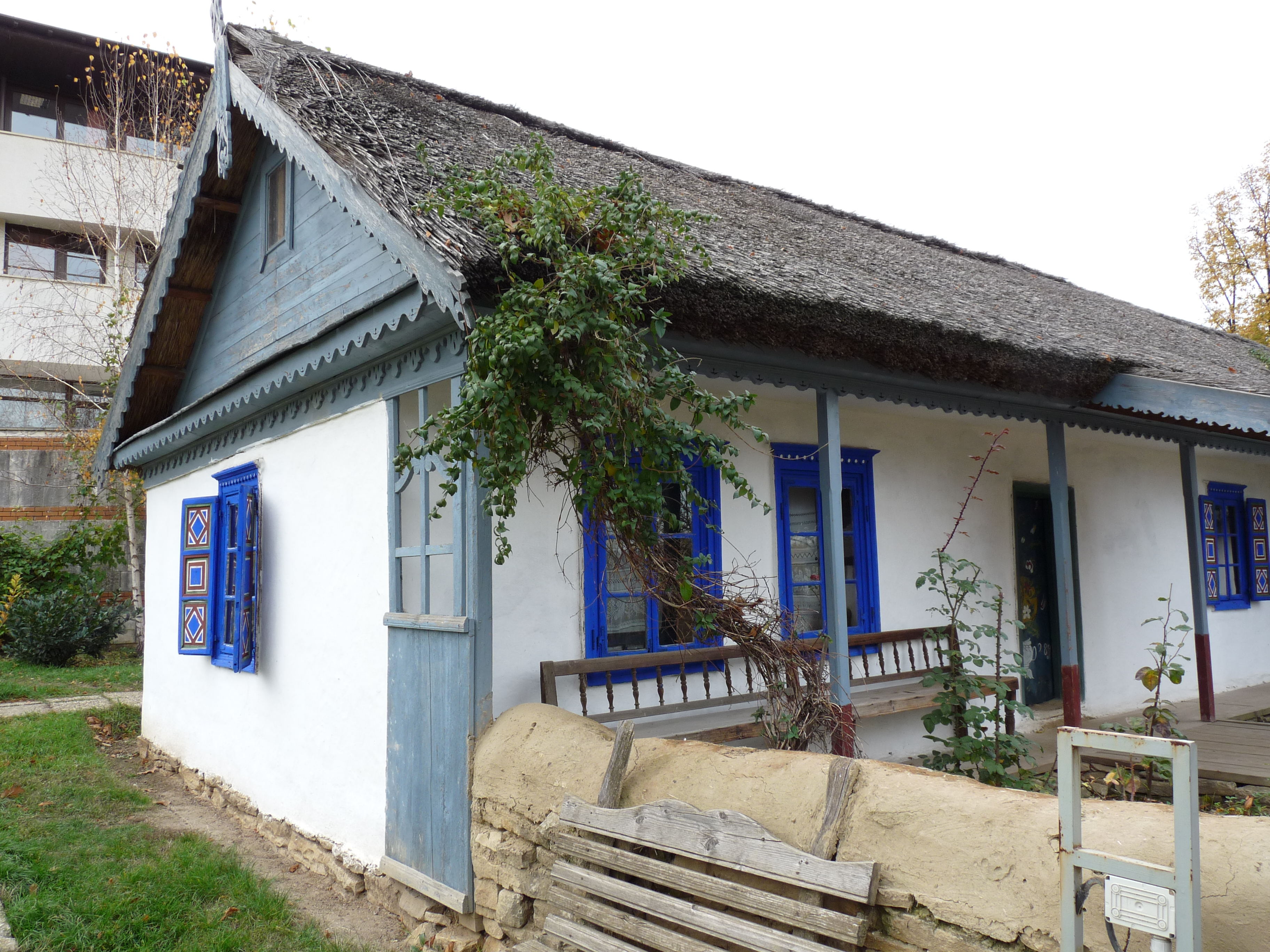 1898 household from Jurilovca, Tulcea County, Romania, exhibited at the Village Museum in Bucharest. Front side.